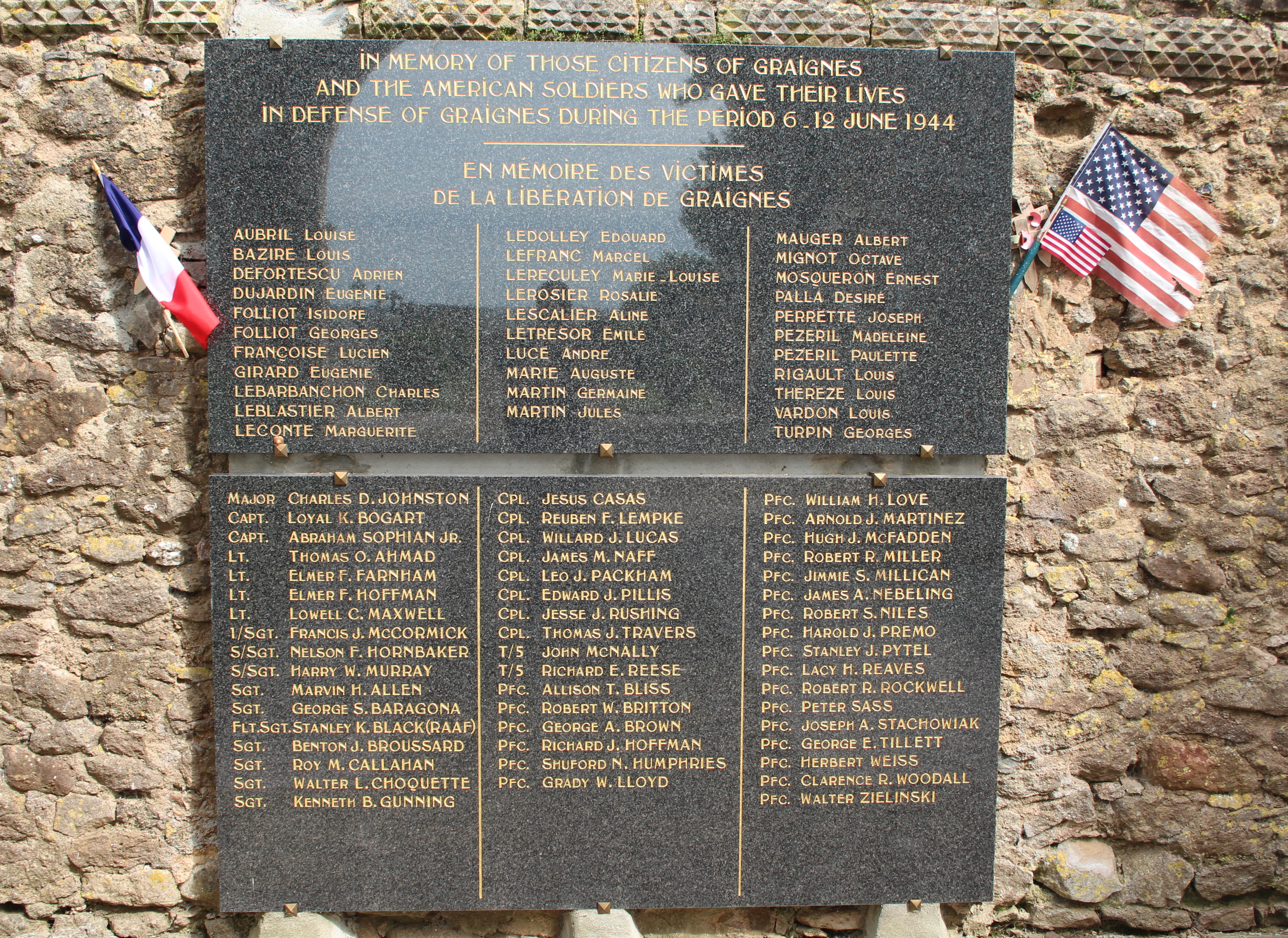 Memorial to citizens of Graignes and the American Soldiers who gave their lives in defense of Graignes during the period June 6-12, 1944.